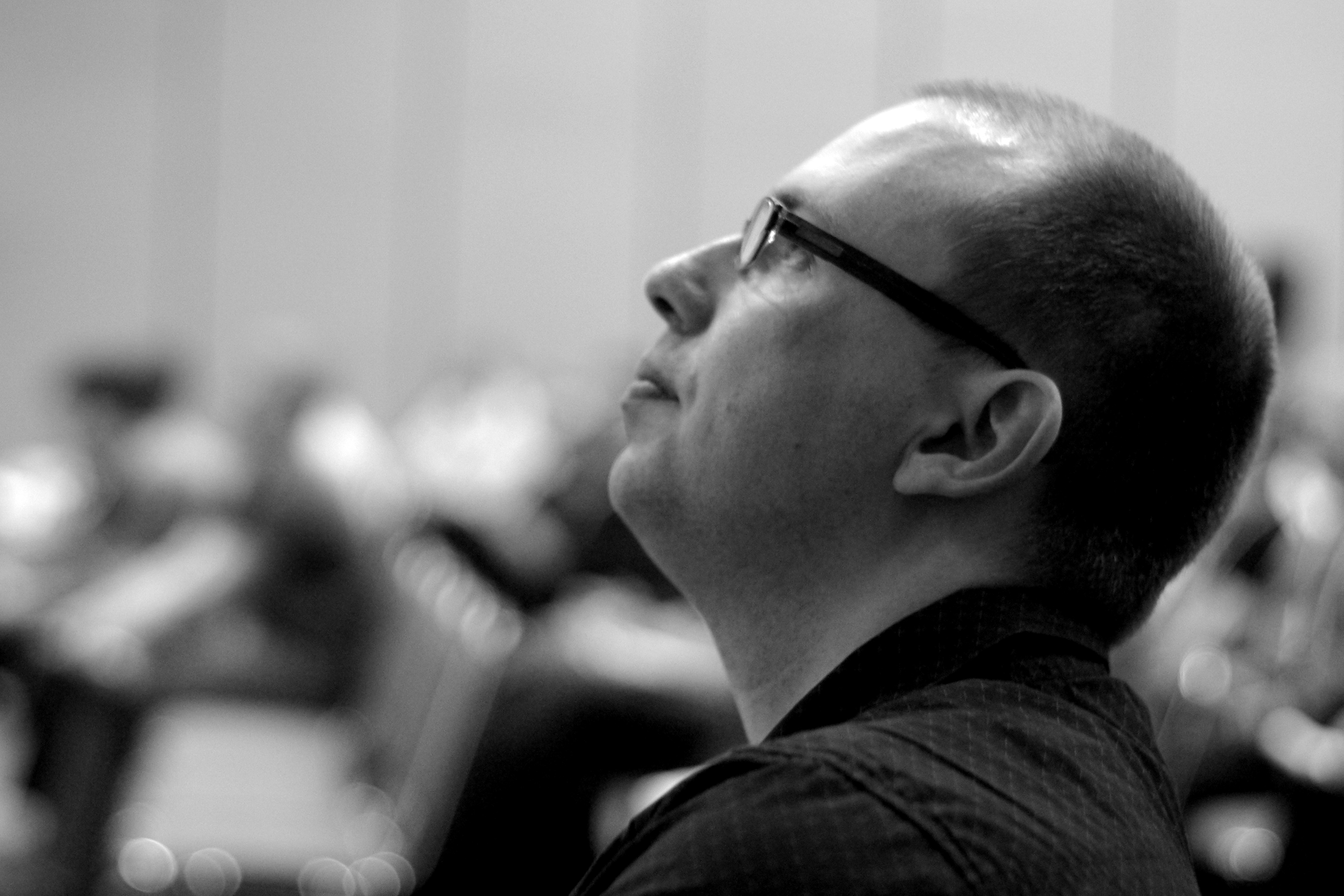 Simon Carless at the Game Developers Conference in 2007.